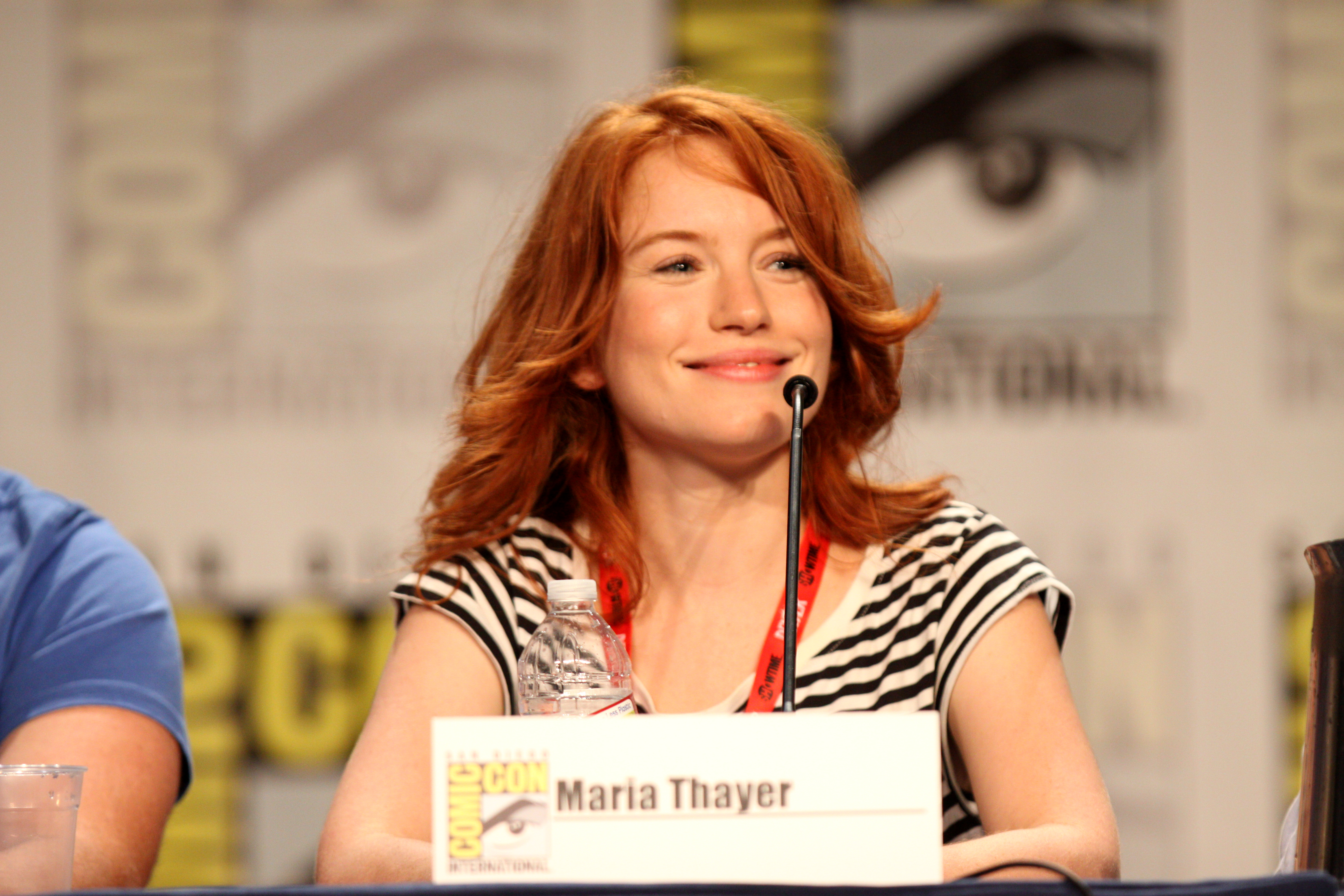 Maria Thayer at the 2011 San Diego Comic-Con International in San Diego, California.